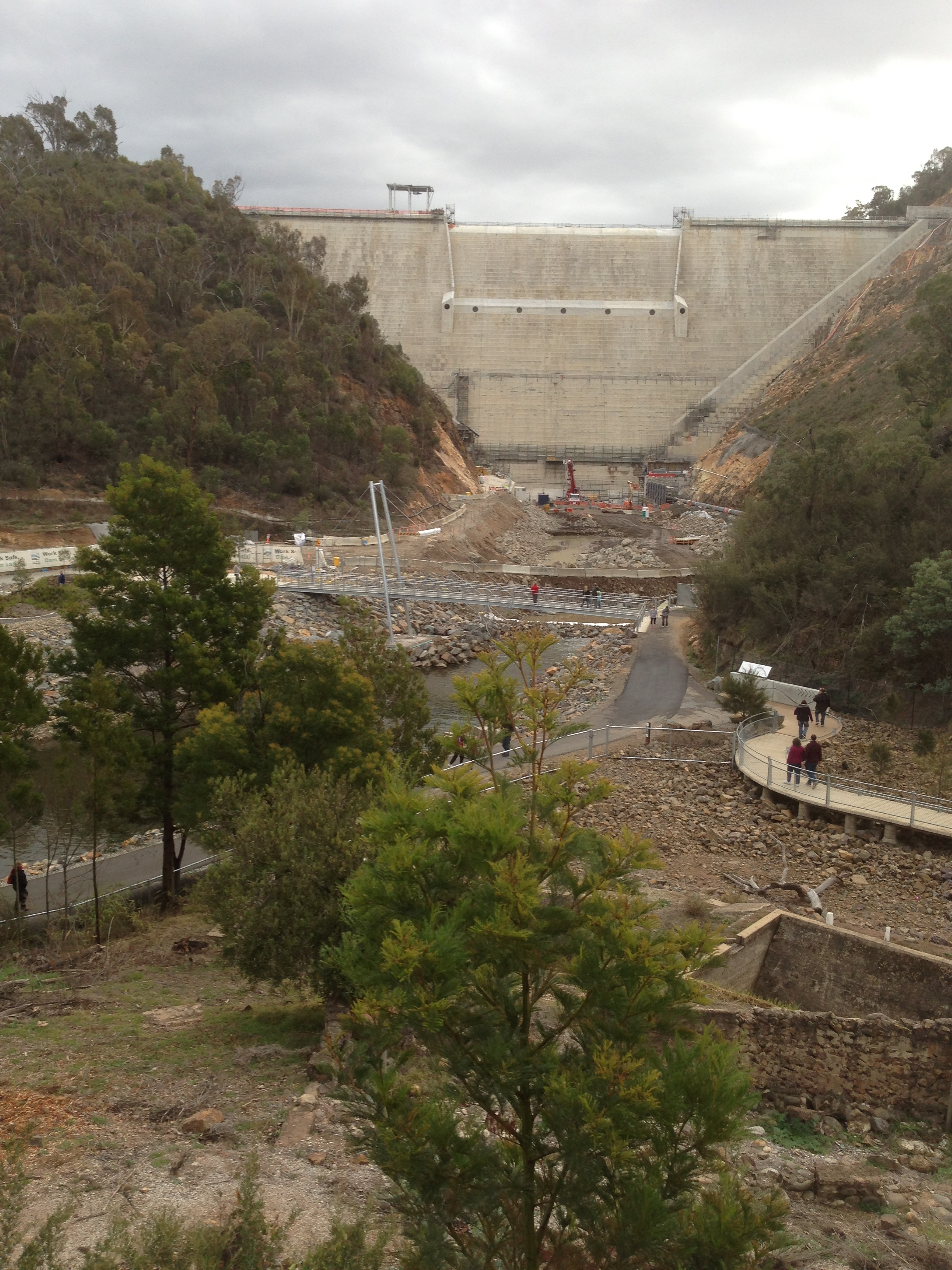 Cotter Dam seen from below.